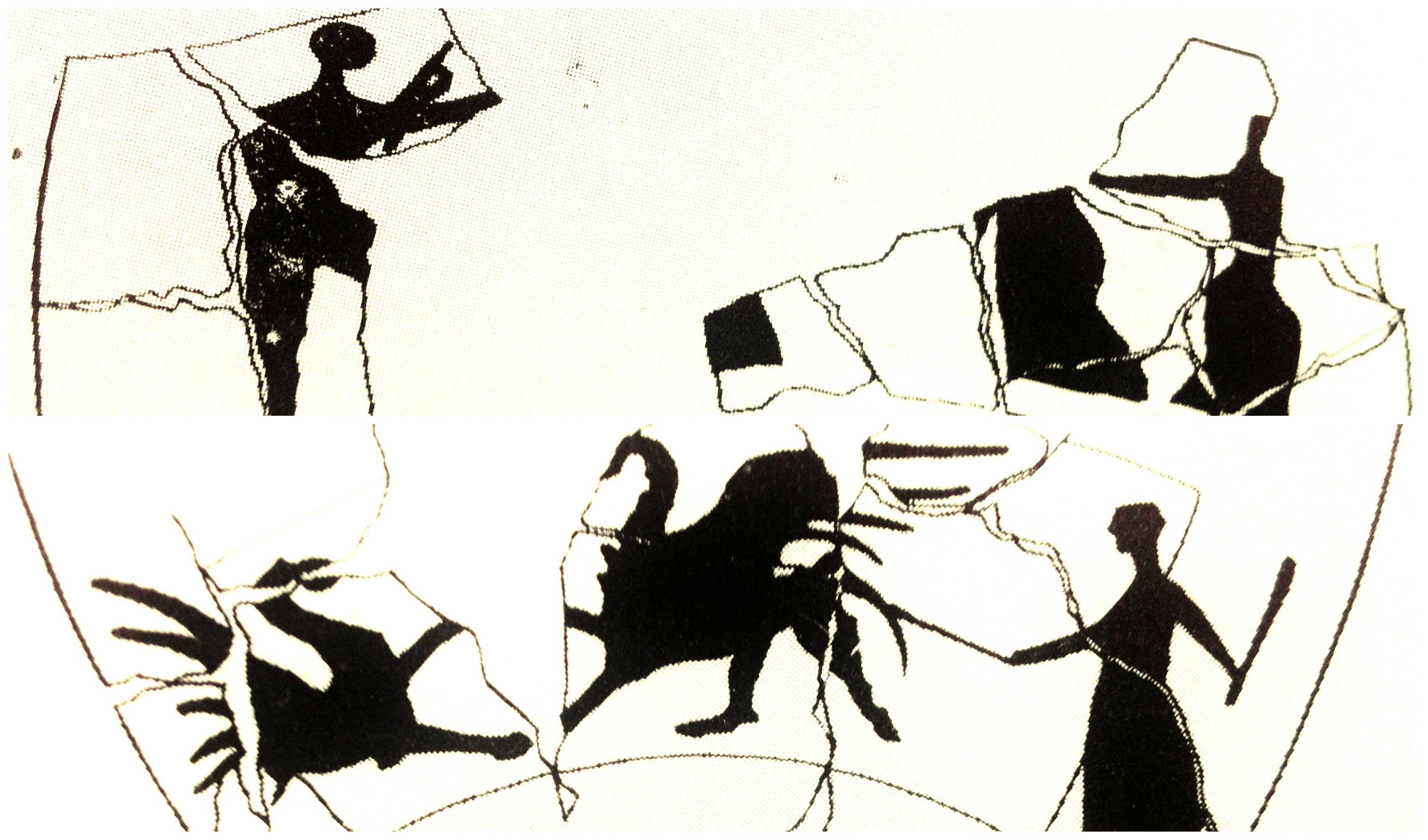 Reconstruction Frescos at Maglidzh Tomb Bulgaria